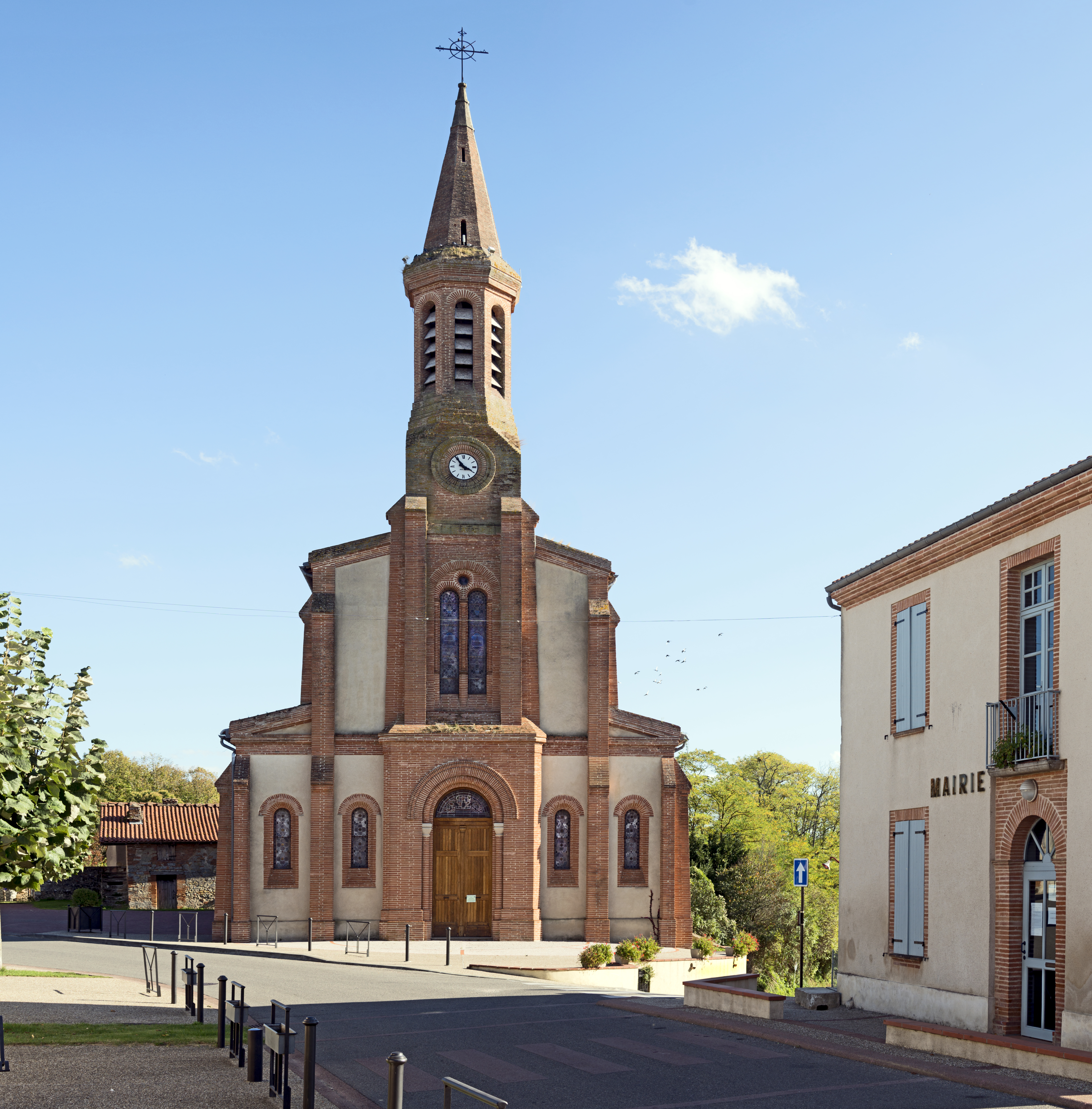 Varennes, Tarn-et-Garonne, France. The facade of the church St. Germaine opened in 1905.